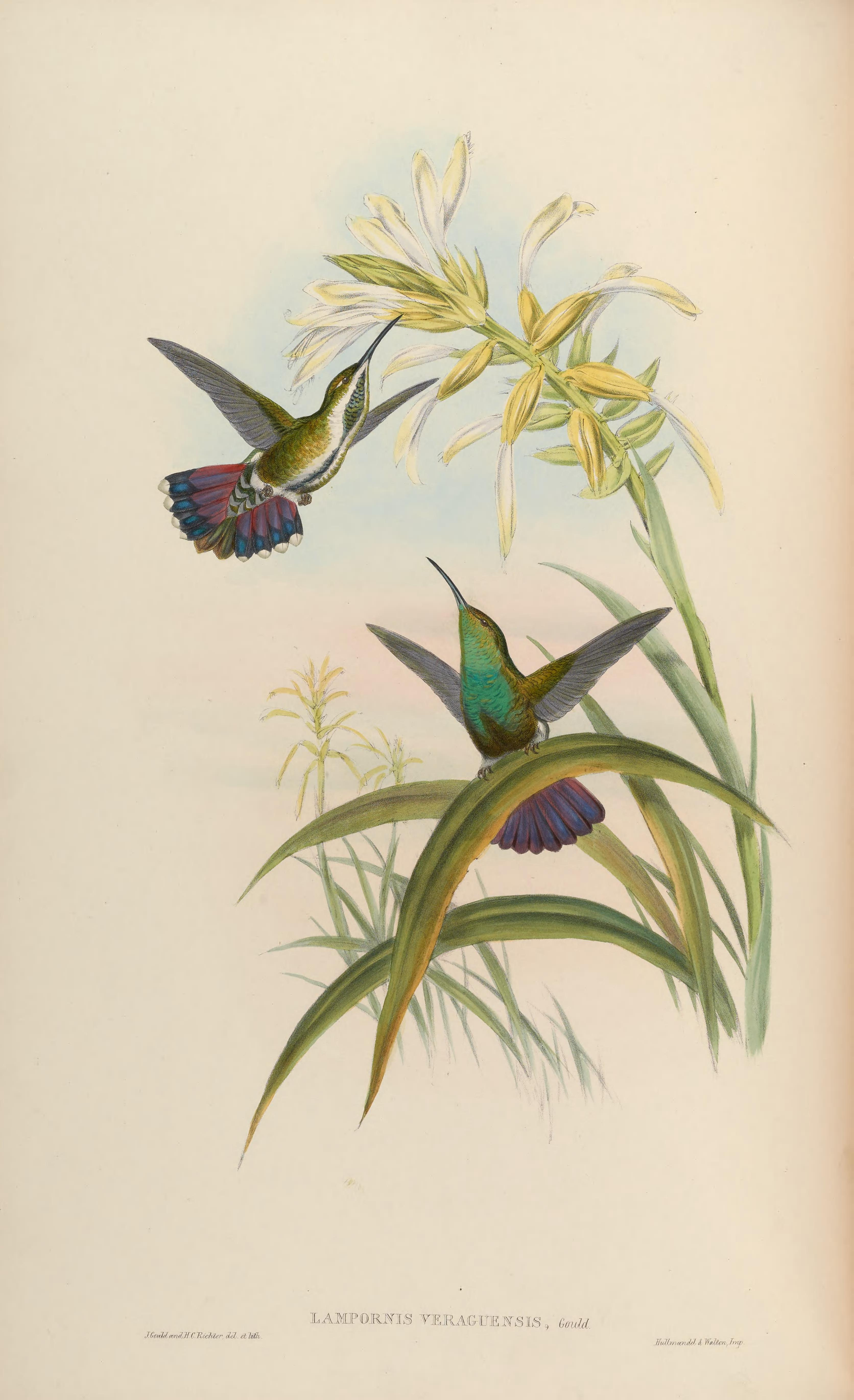 Lampornis veraguensis = Anthracothorax veraguensis [1]